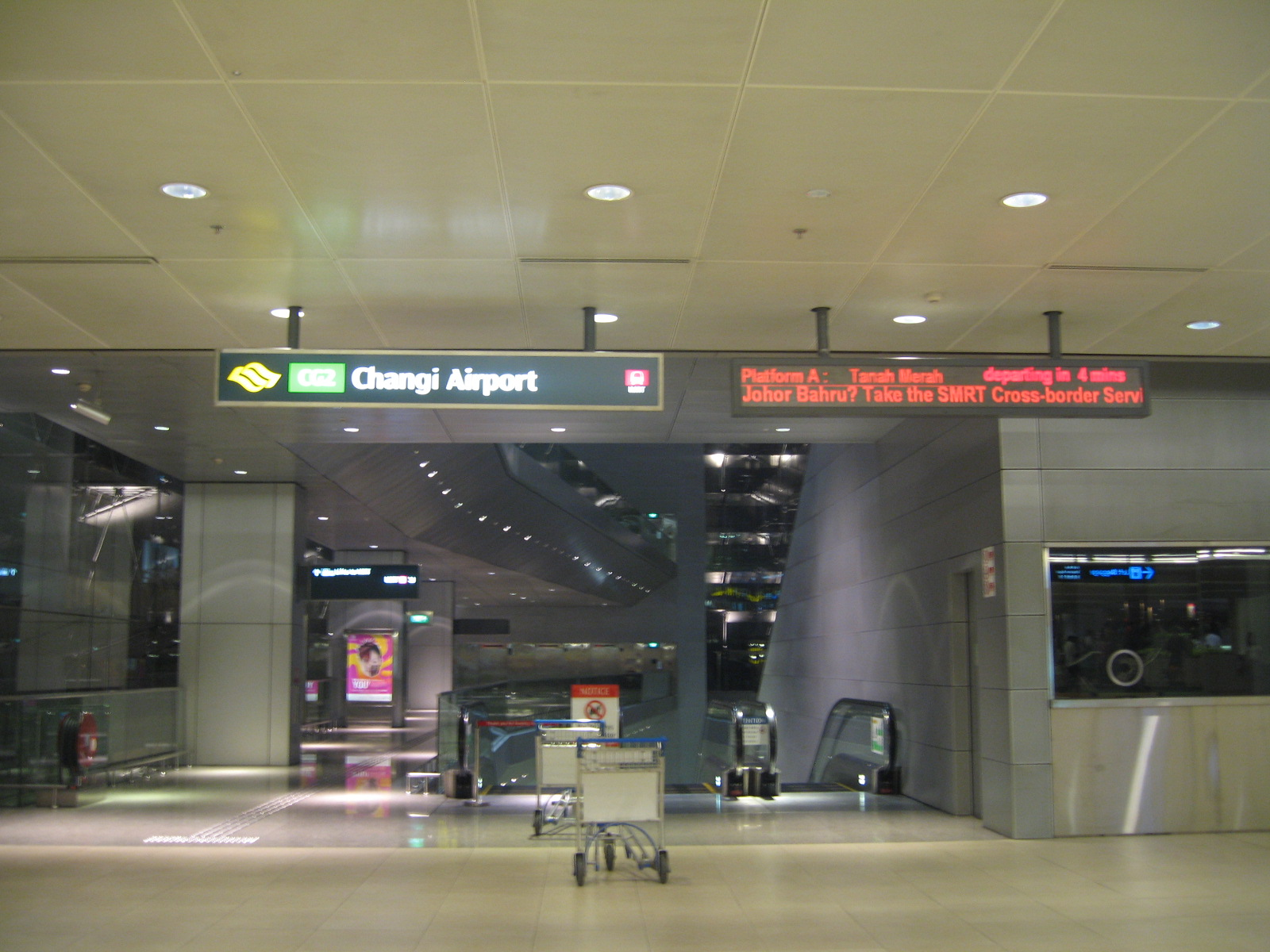 Changi Airport MRT Station.